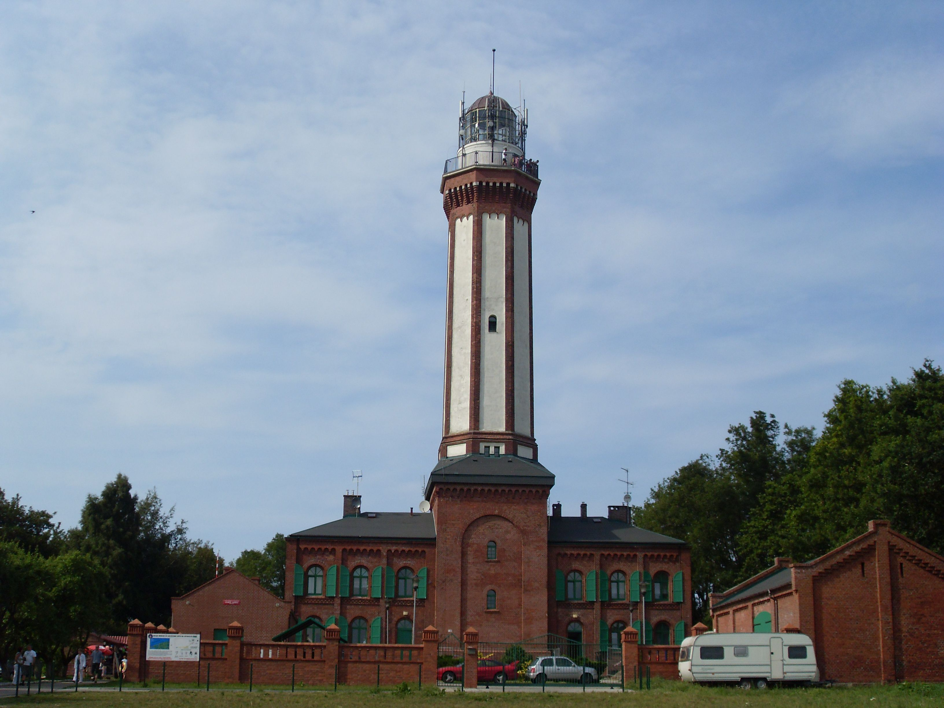 The lighthouse in Niechorze (Horst) in Poland